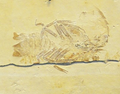 Fossil of Cycleryon orbiculatus, an extinct crustacean Took the photo at Musee d'Histoire Naturelle, Brussels